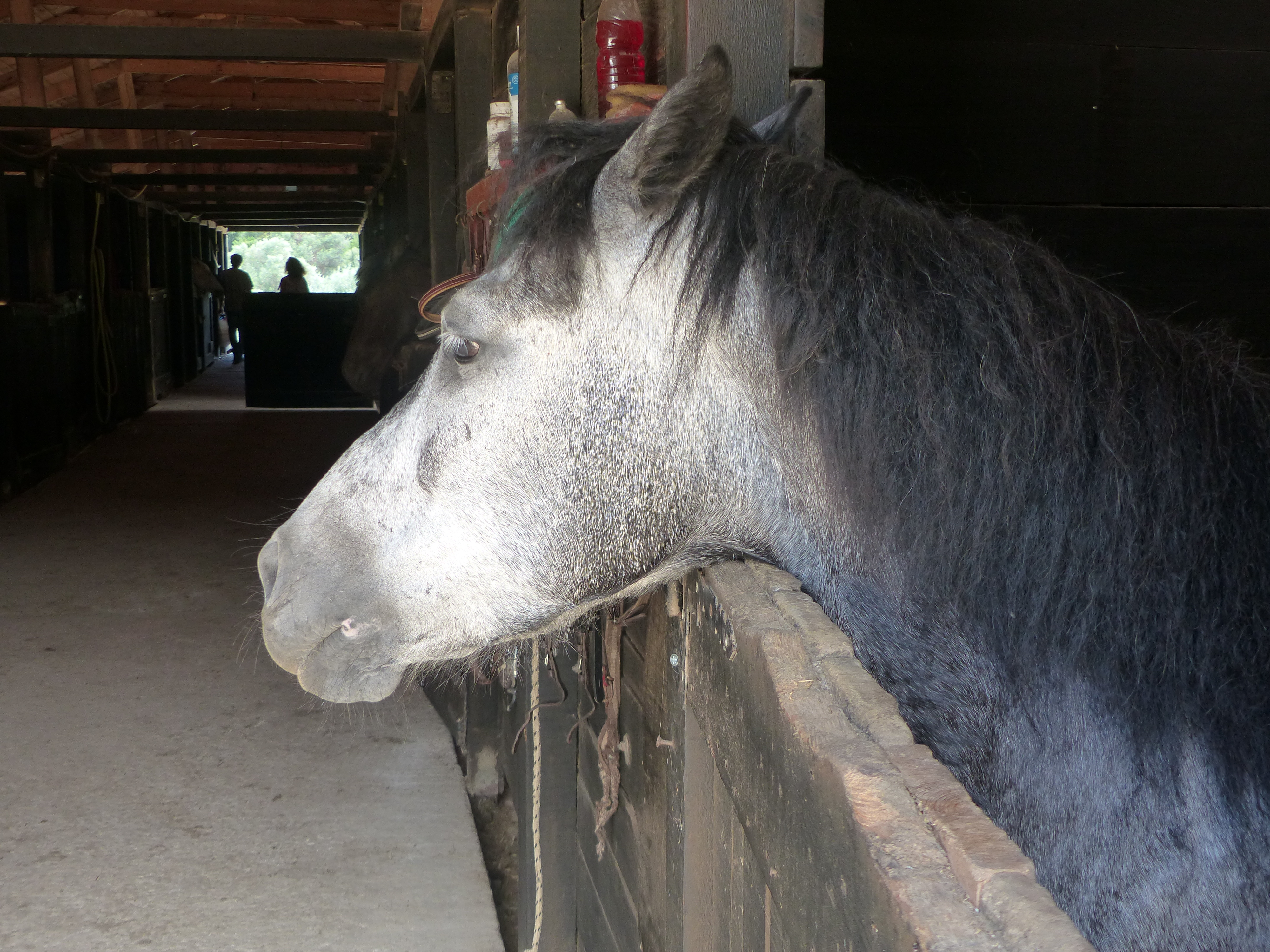 Young Cretan horse at Georgioupoli, Grillos stables